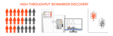 High throughput biomarker discovery using SESI